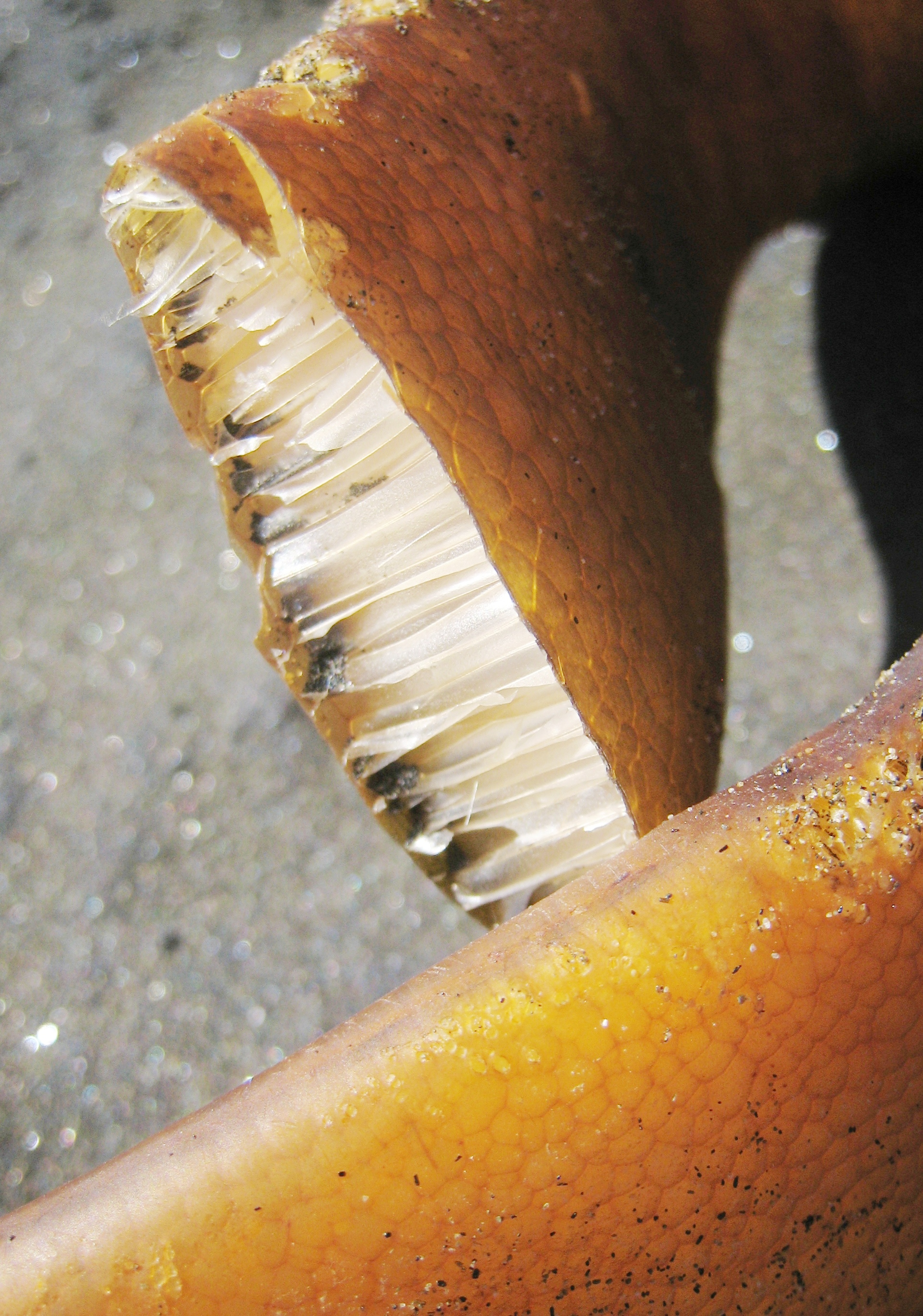 Dried blade of bull kelp (Durvillaea antarctica) with cross-section showing part of its internal honeycomb structure. The blade is about 4-5 cm (almost 2") wide, and less than 1 cm (0.4") thick. Found on Muriwai Beach, west of Auckland, New Zealand.